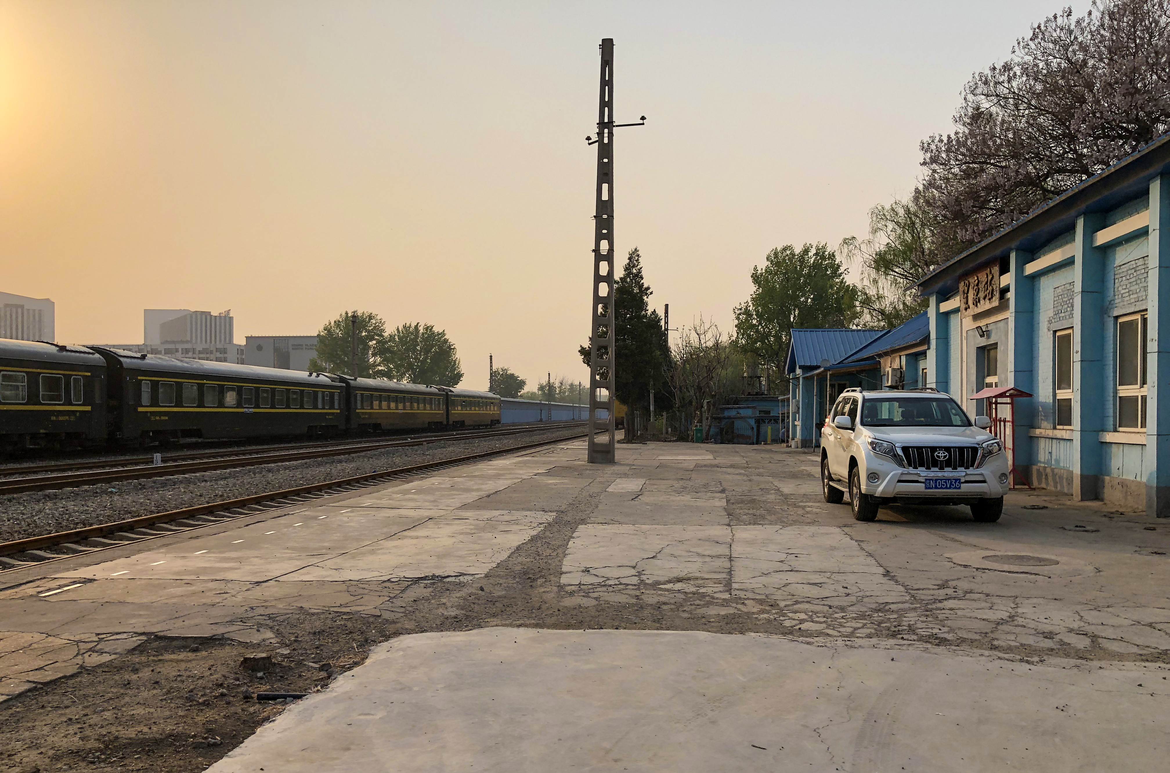 Actually in Shangezhuang.